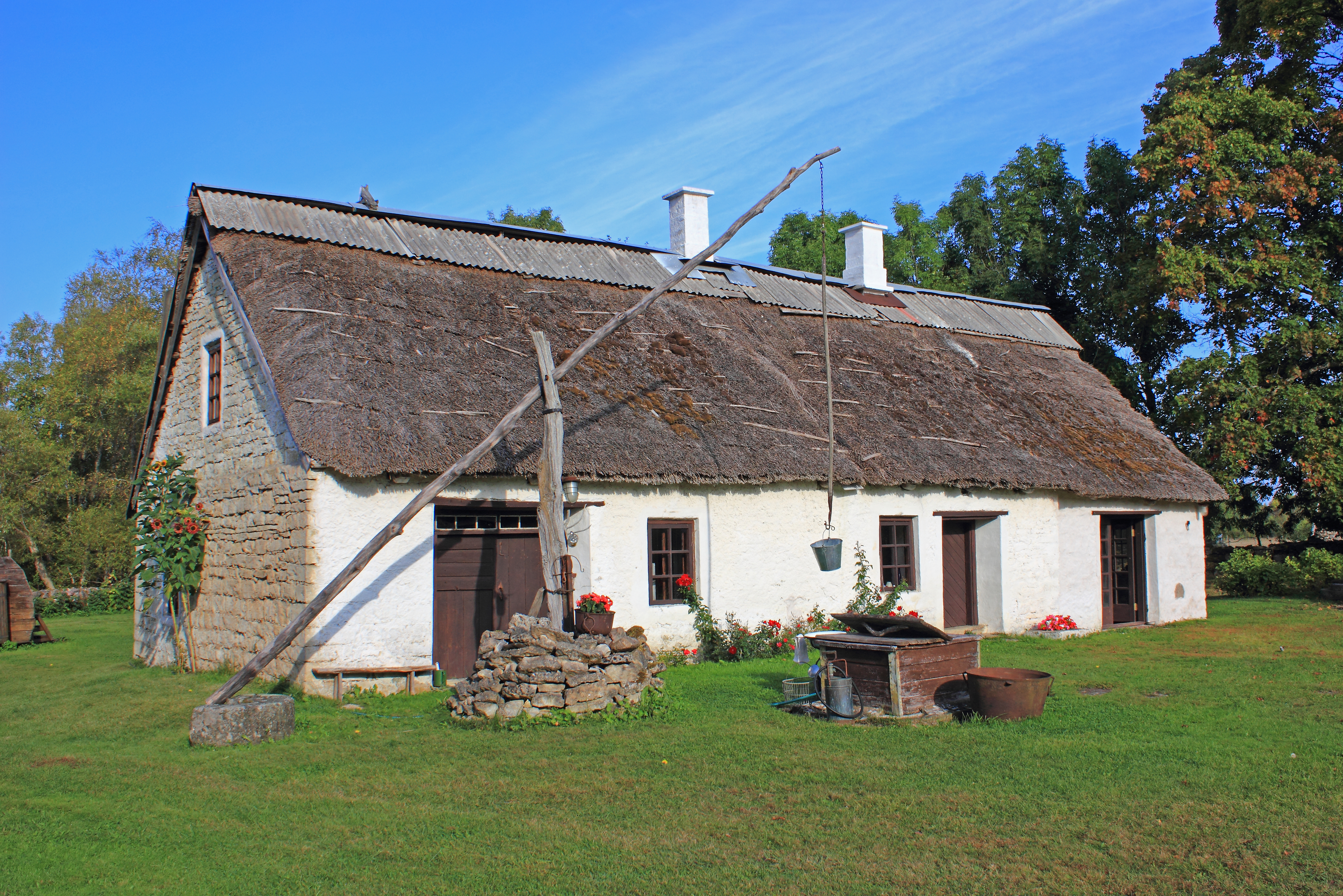 Old fashioned farmhouse. Järveküla. Saaremaa island, Estonia.